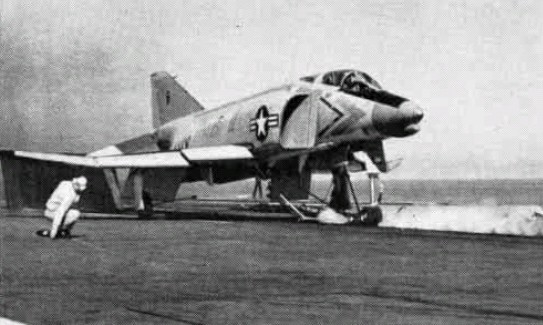 A U.S. Navy McDonnell XF4H-1 Phantom II on the catapult of the aircraft carrier USS Independence (CVA-62), circa 1959.